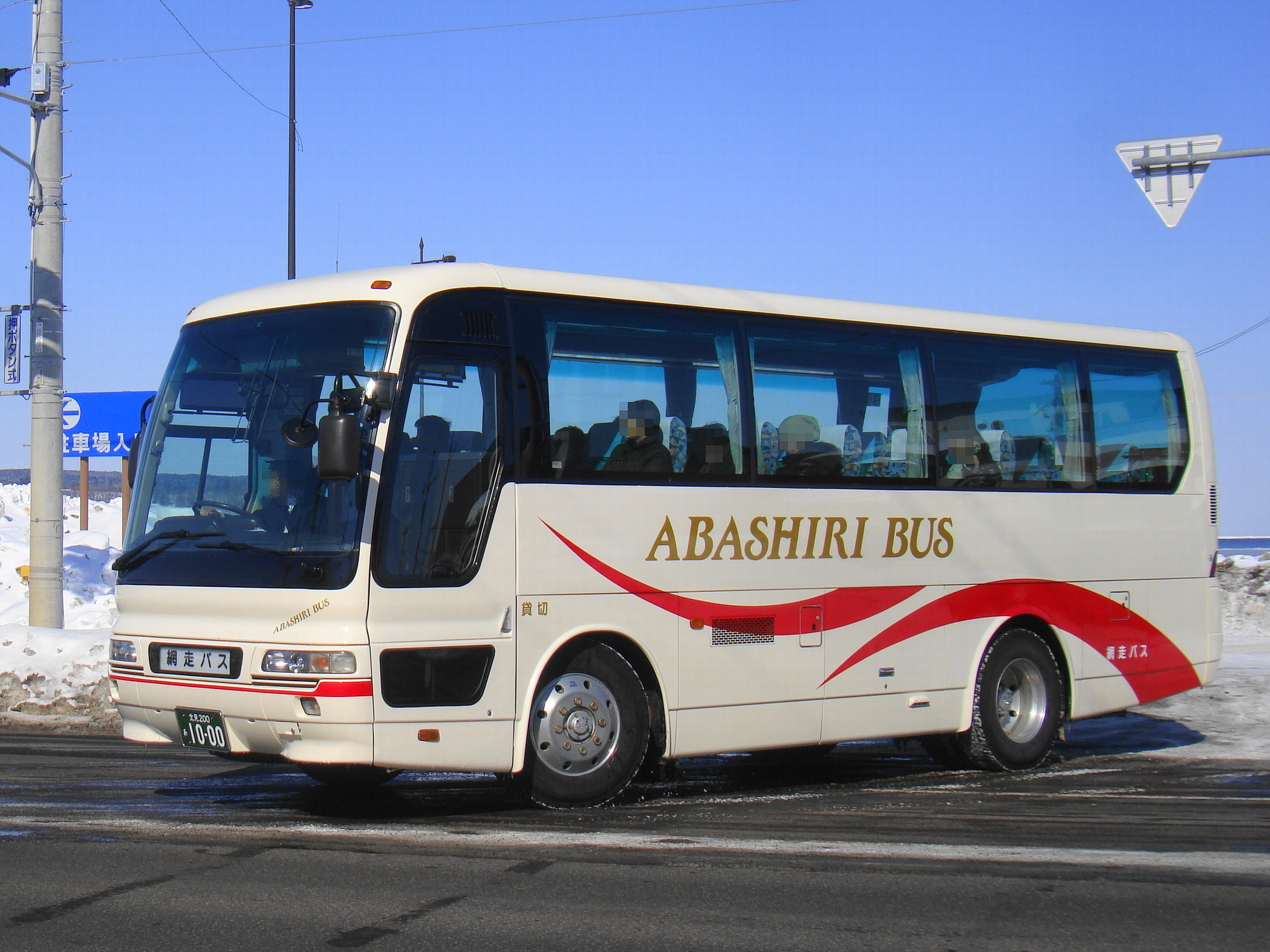 Abashiri sightseeing course